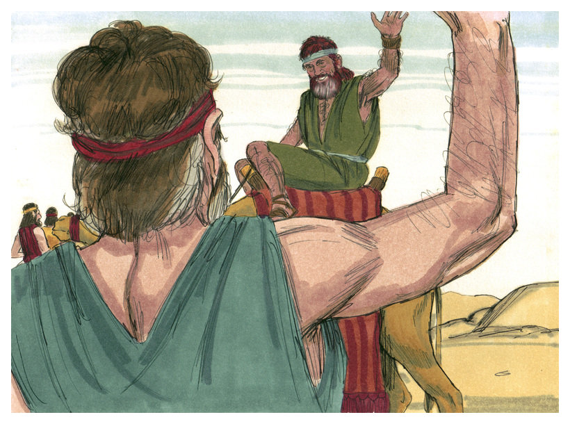 Biblical illustration of Book of Genesis Chapter 33